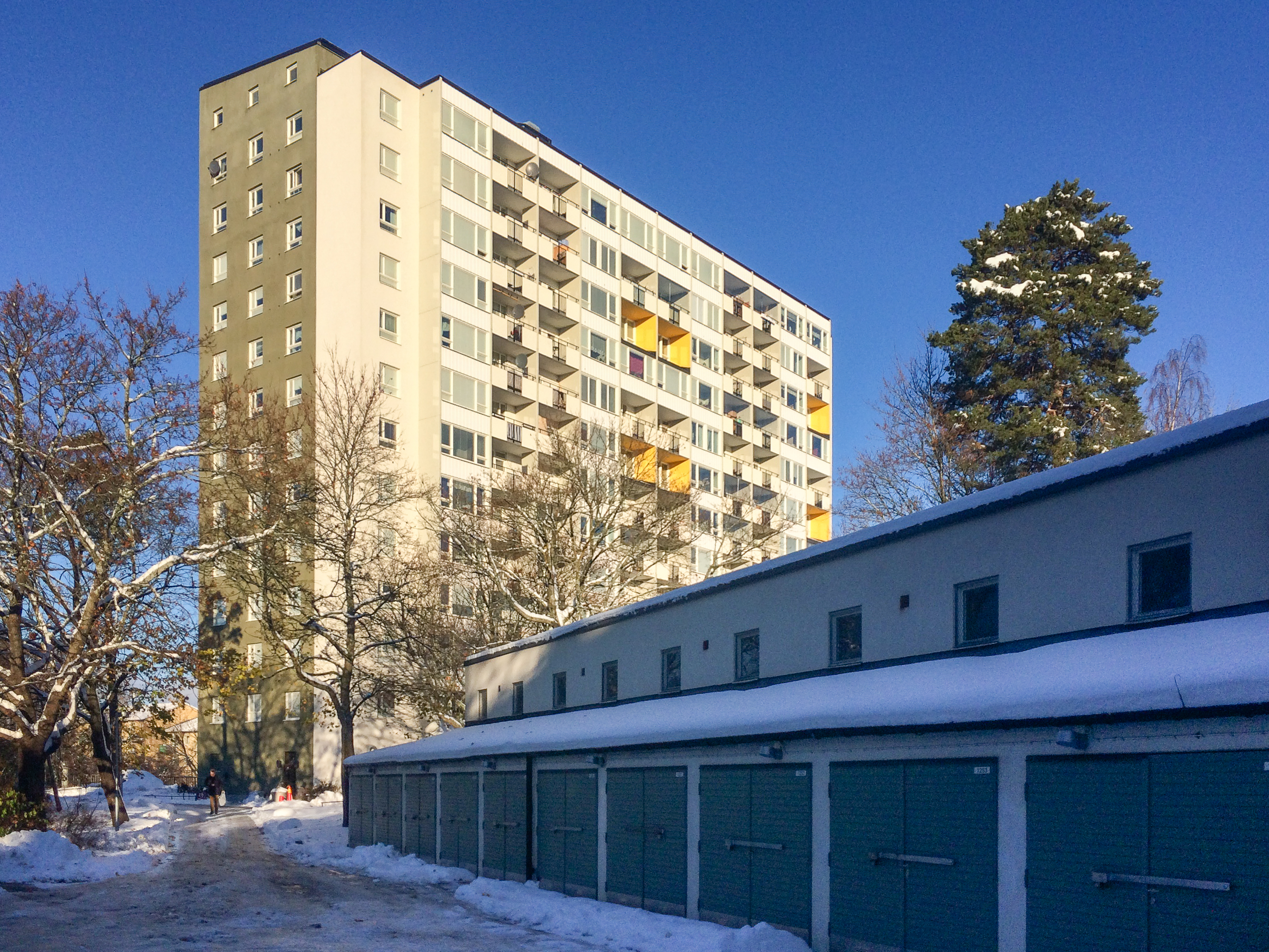 Ungdomshotellet in Hässelby gård. Built 1957, architect Hjalmar Klemming.